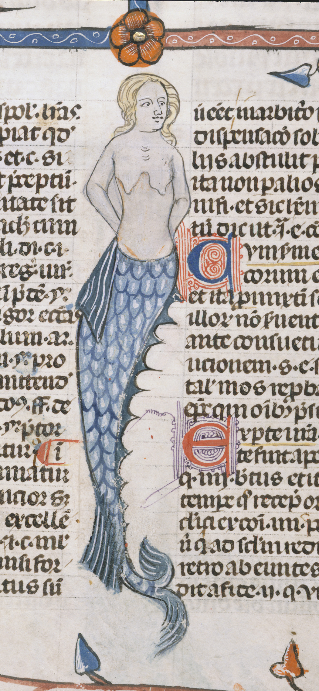 A Mermaid (Detail) Marginal drawing showing a mermaid.